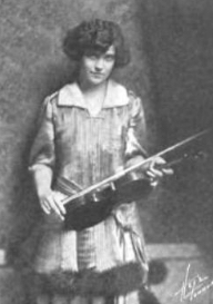 A young white woman, standing, holding a violin and bow. She had thick wavy hair cropped to cheekbone length; she is wearing a fur-trimmed dress with a wide collar.